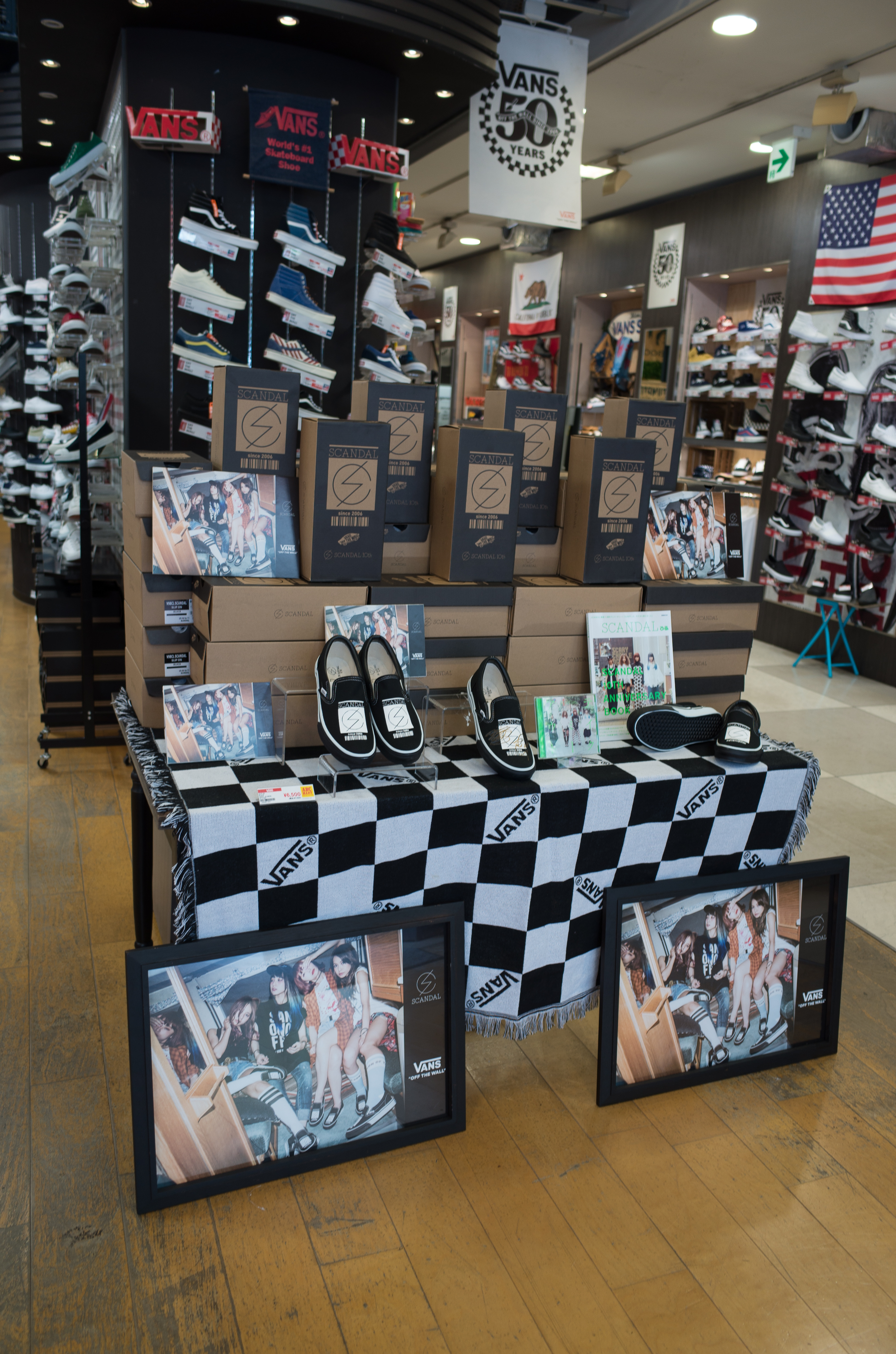 Limited edition Scandal × Vans shoes (Model V98CL Scandal) on display at ABC-Mart Shibuya Store